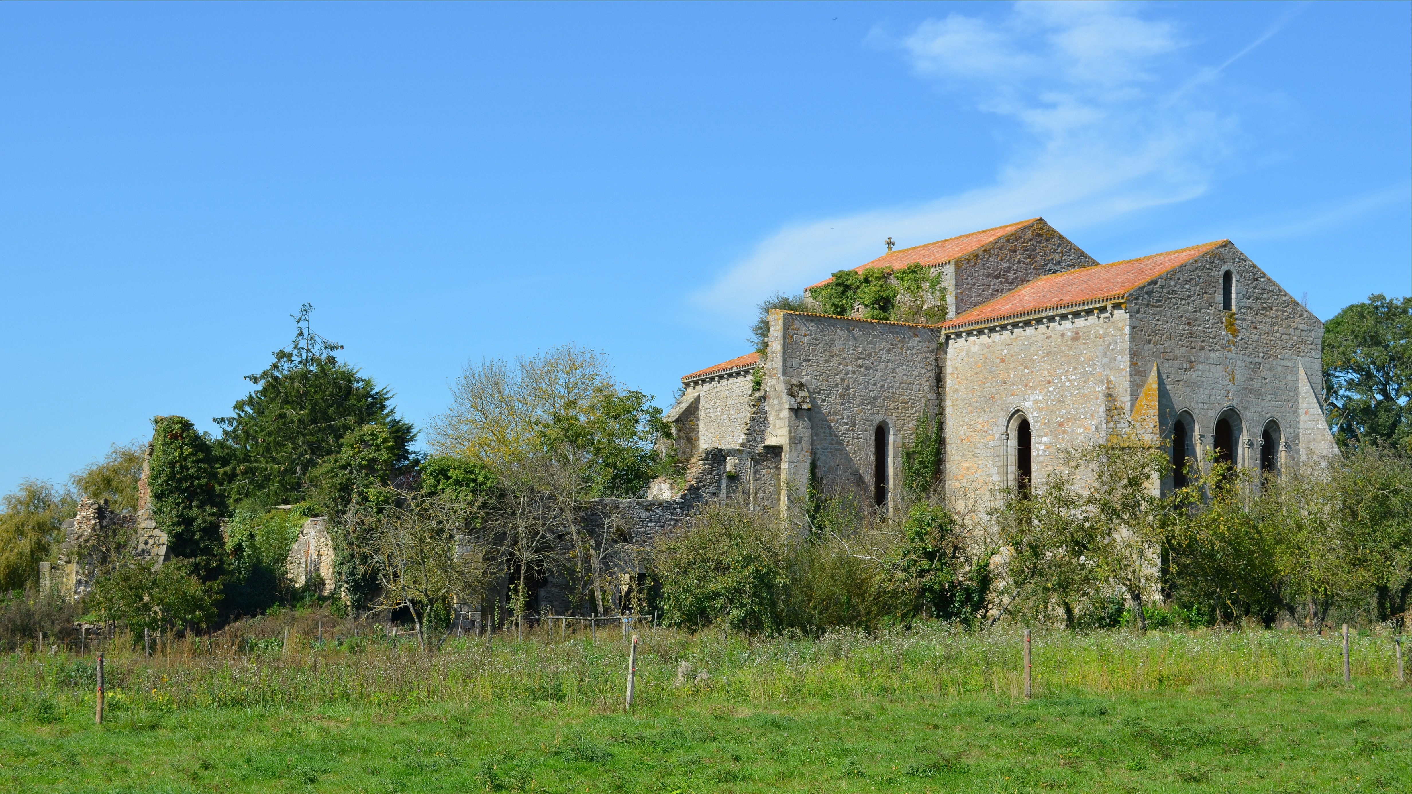 Fontenelles abbey (13th-15th century) - Saint André D'Ornay, La Roche-sur-Yon .